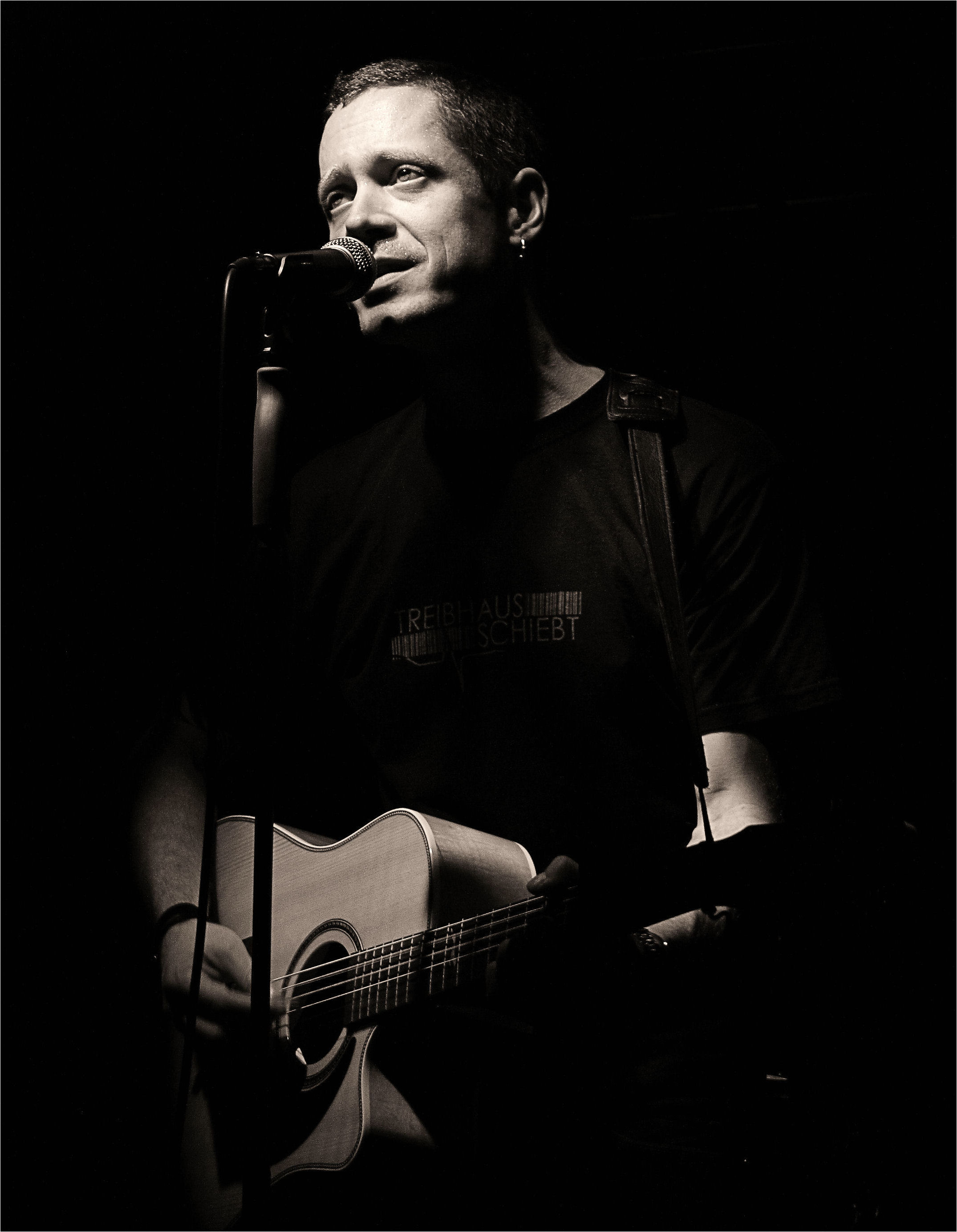 Photo of musician Morgan Finlay performing at the Greenotion in Ludinghausen, Germany on October 25, 2008